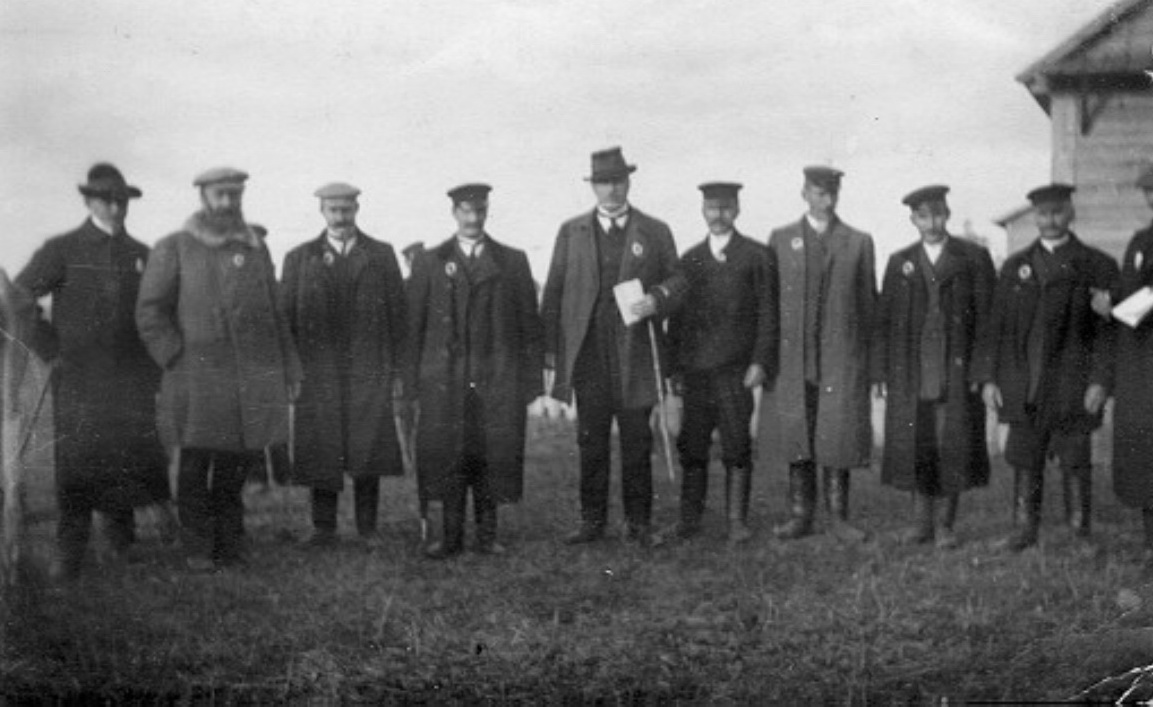 Counters census in 1897 in the county Mologa.